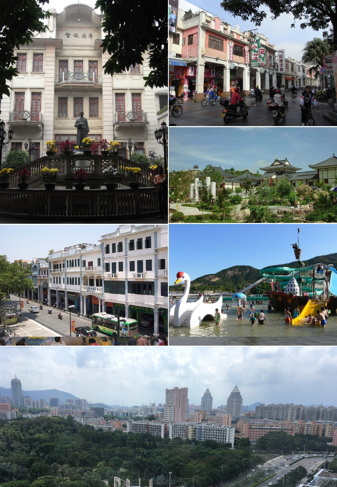 Montage of various Jiangmen images